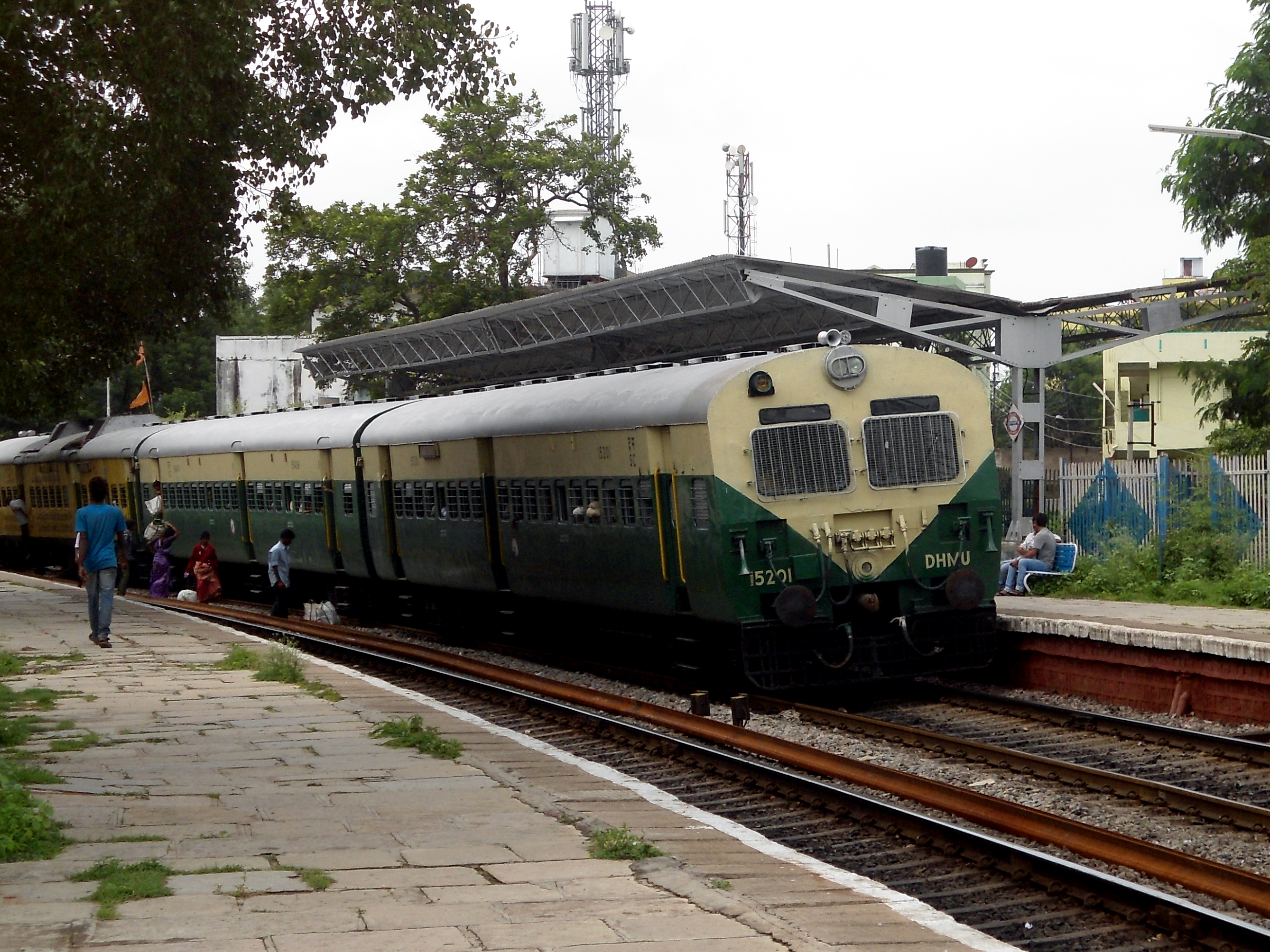 (SC-Medchal) DHMU local at Alwal train station, Hyderabad